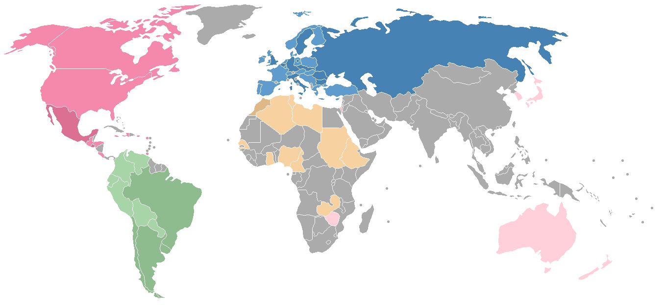 Shows teams of en:1970 FIFA World Cup qualification on a world map